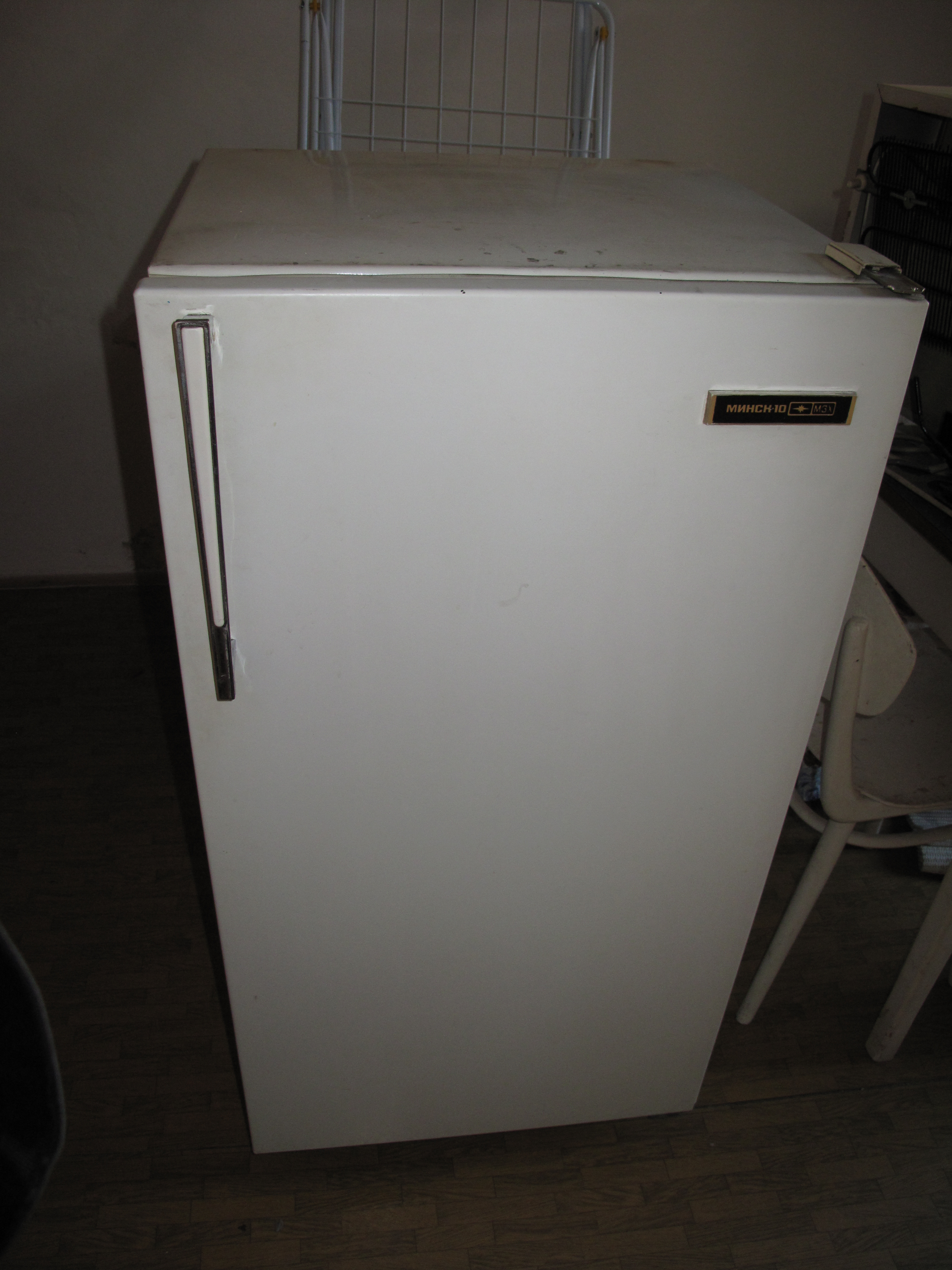 Minsk 10 fridge, from the front. Made approximatelly in 1980.